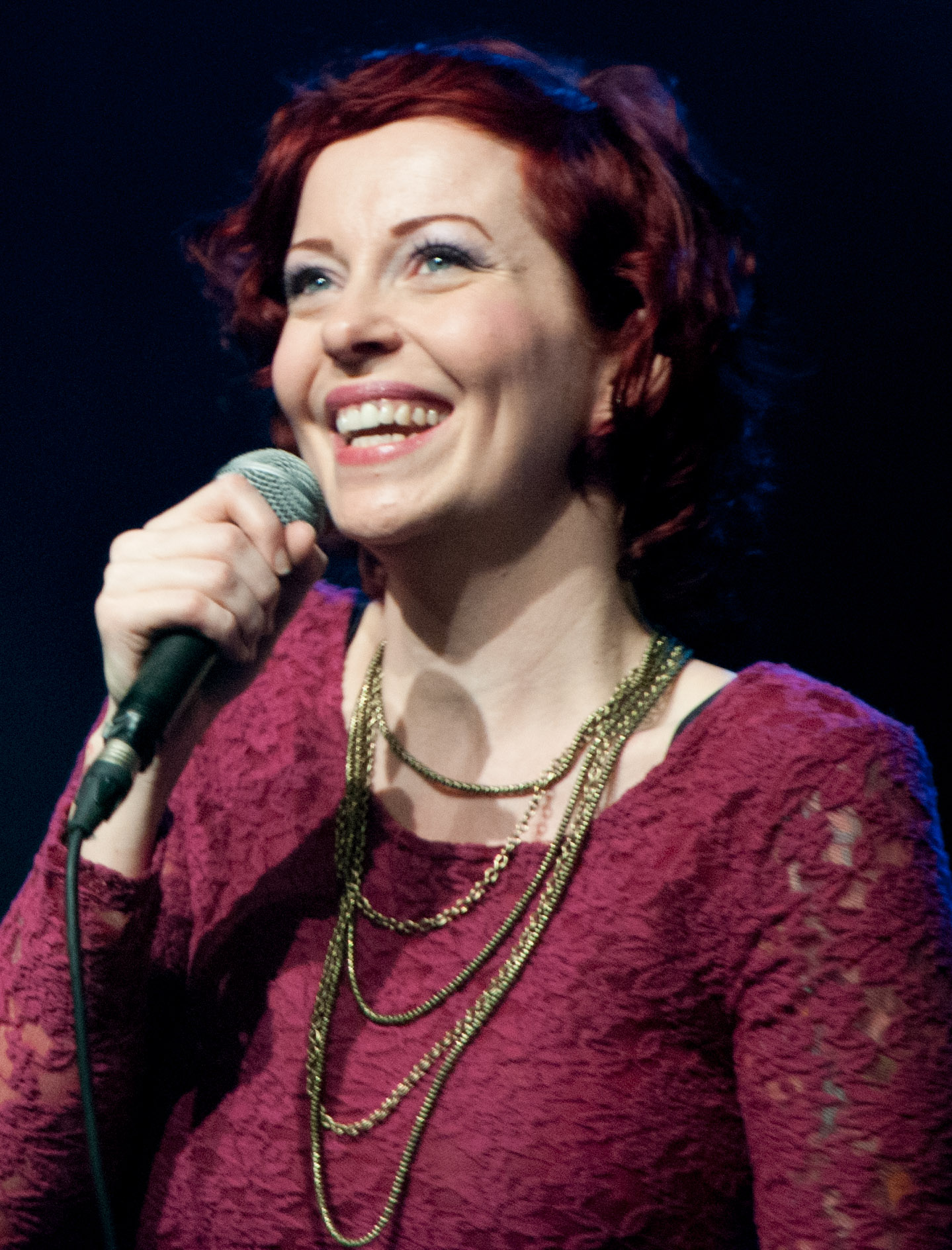 Anneke van Giersbergen. Santiago, Chile. 2014.